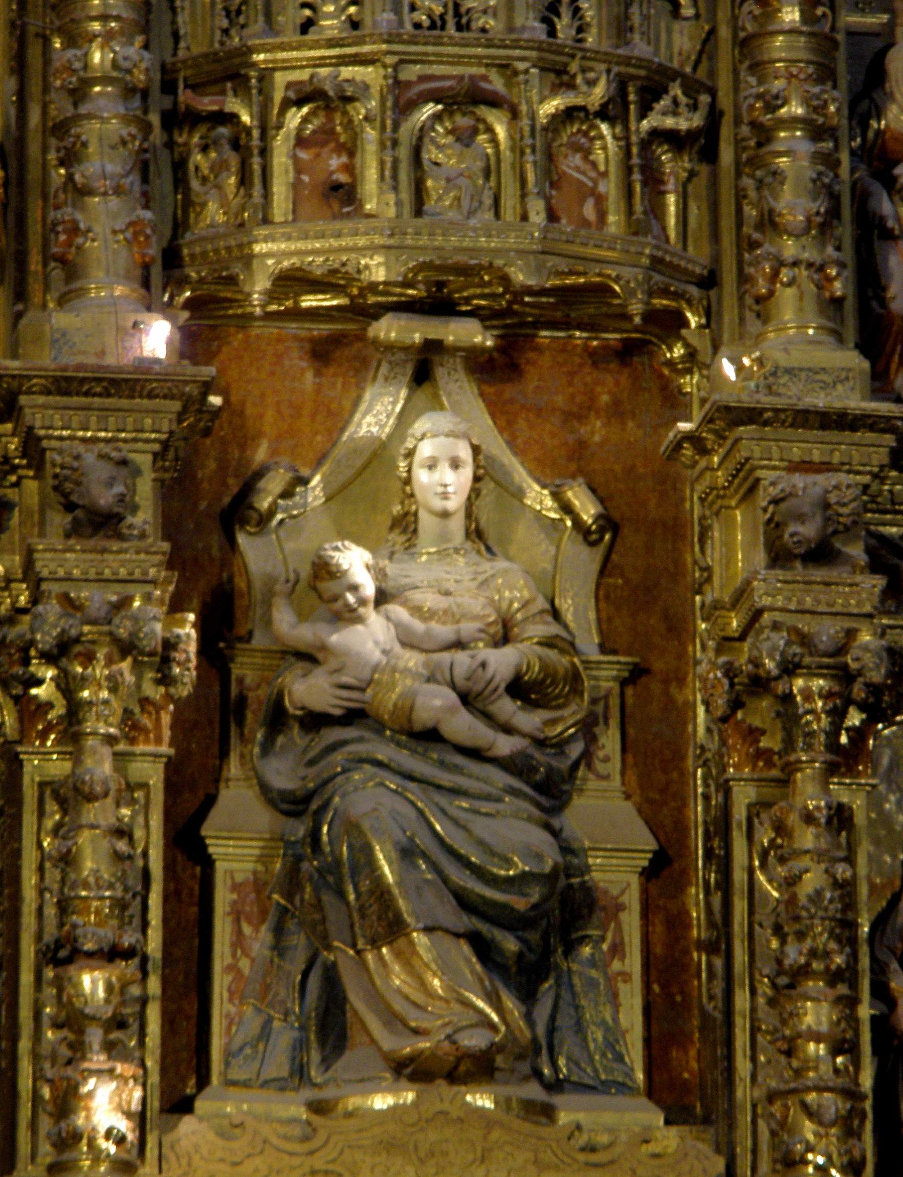 Virgen del Parral, en el retablo mayor de la iglesia del monasterio jerónimo acogido a su advocación en Segovia (España)